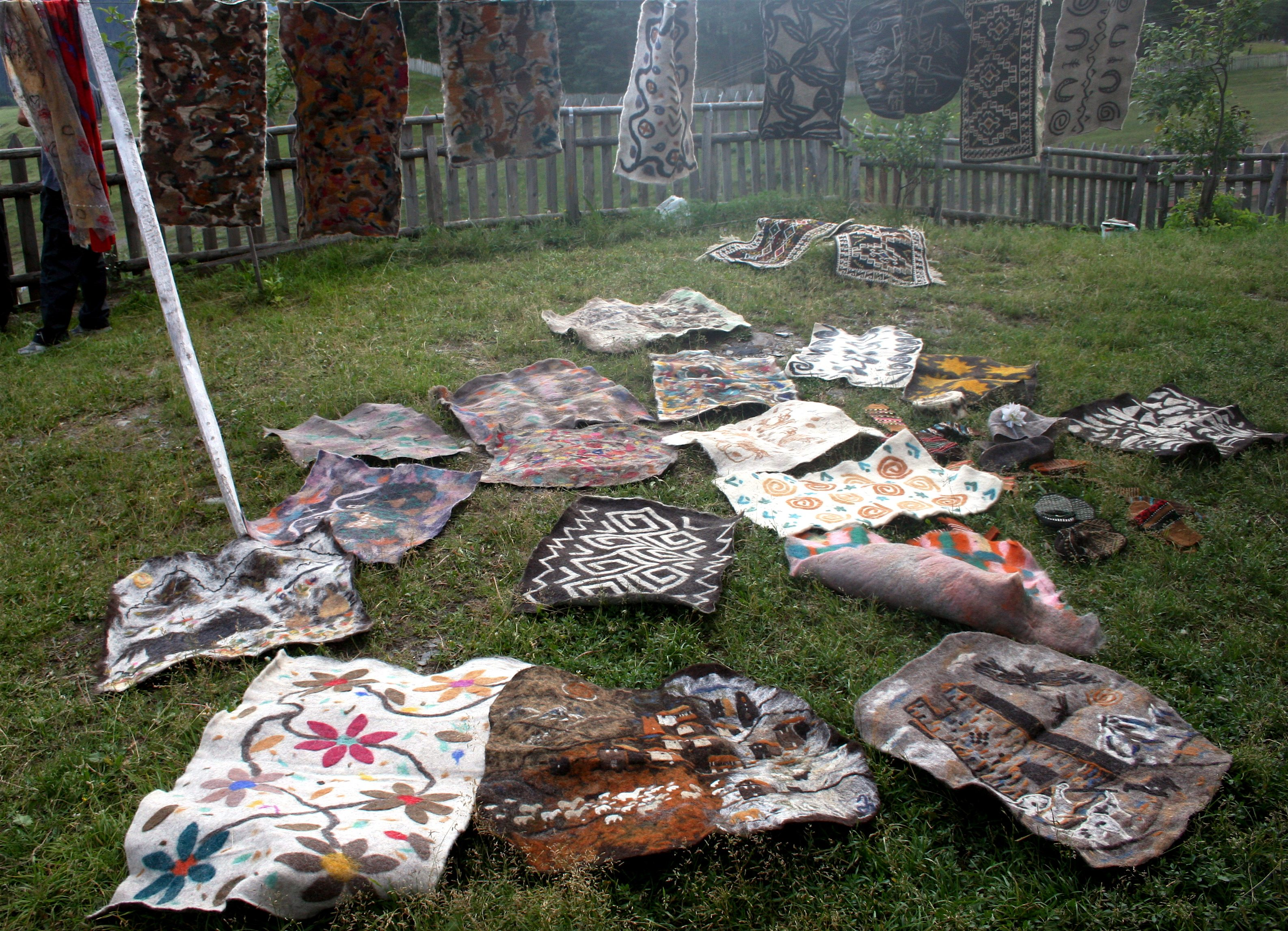 Tushetian woolworks "teqa"